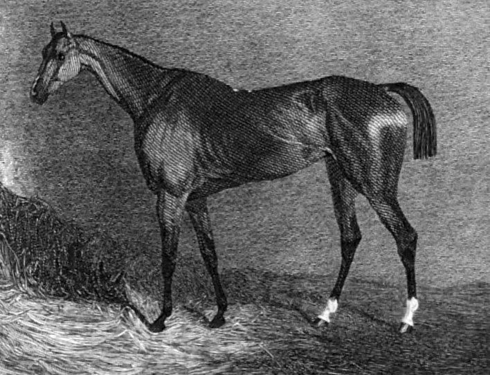 Engraving of the British racehorse Turquoise. 1829. Engraving by R.B. Davis from painting by F. Scott.